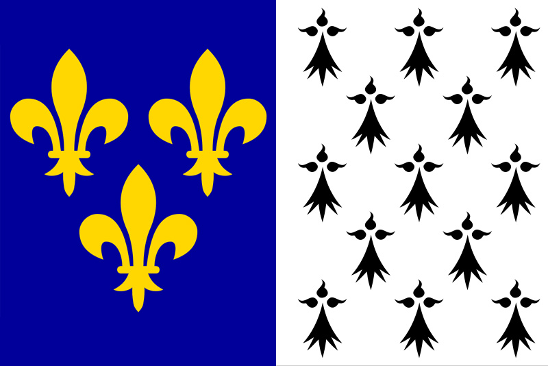 flag of the city of Brest, France, derived from its coat of arms